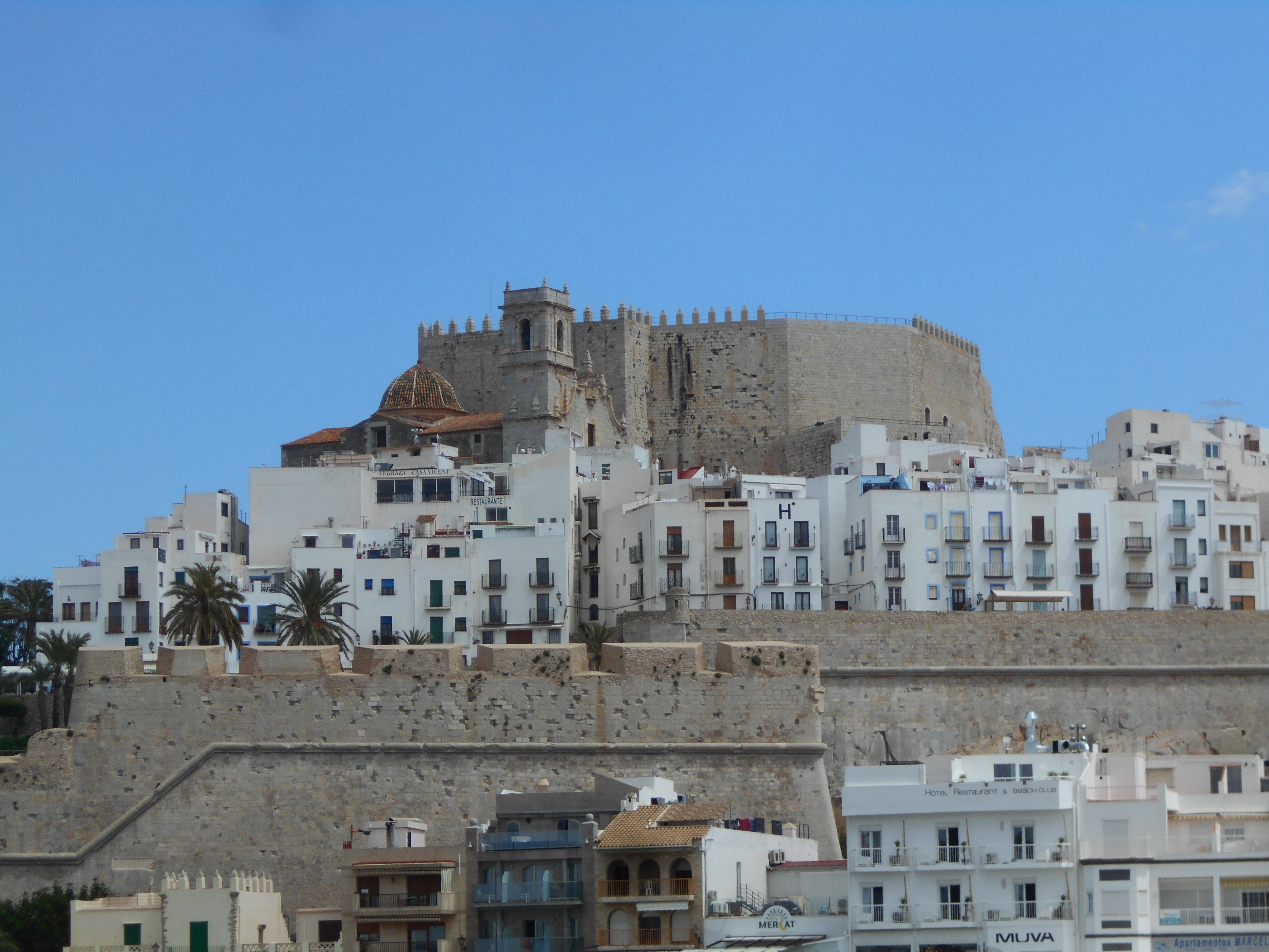 Peniscola Castle and town wall, from the north beach. Valencia, Spain. Taken from the North Beach